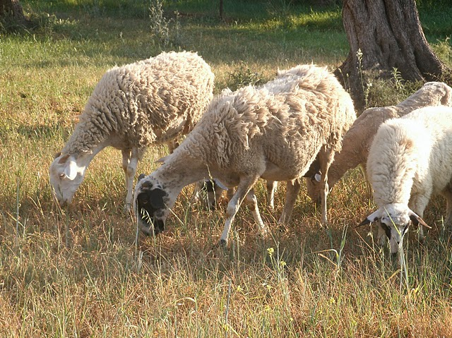 Sheep on a farm south of Mesogeion Astros, on the road to Paralio Astros.